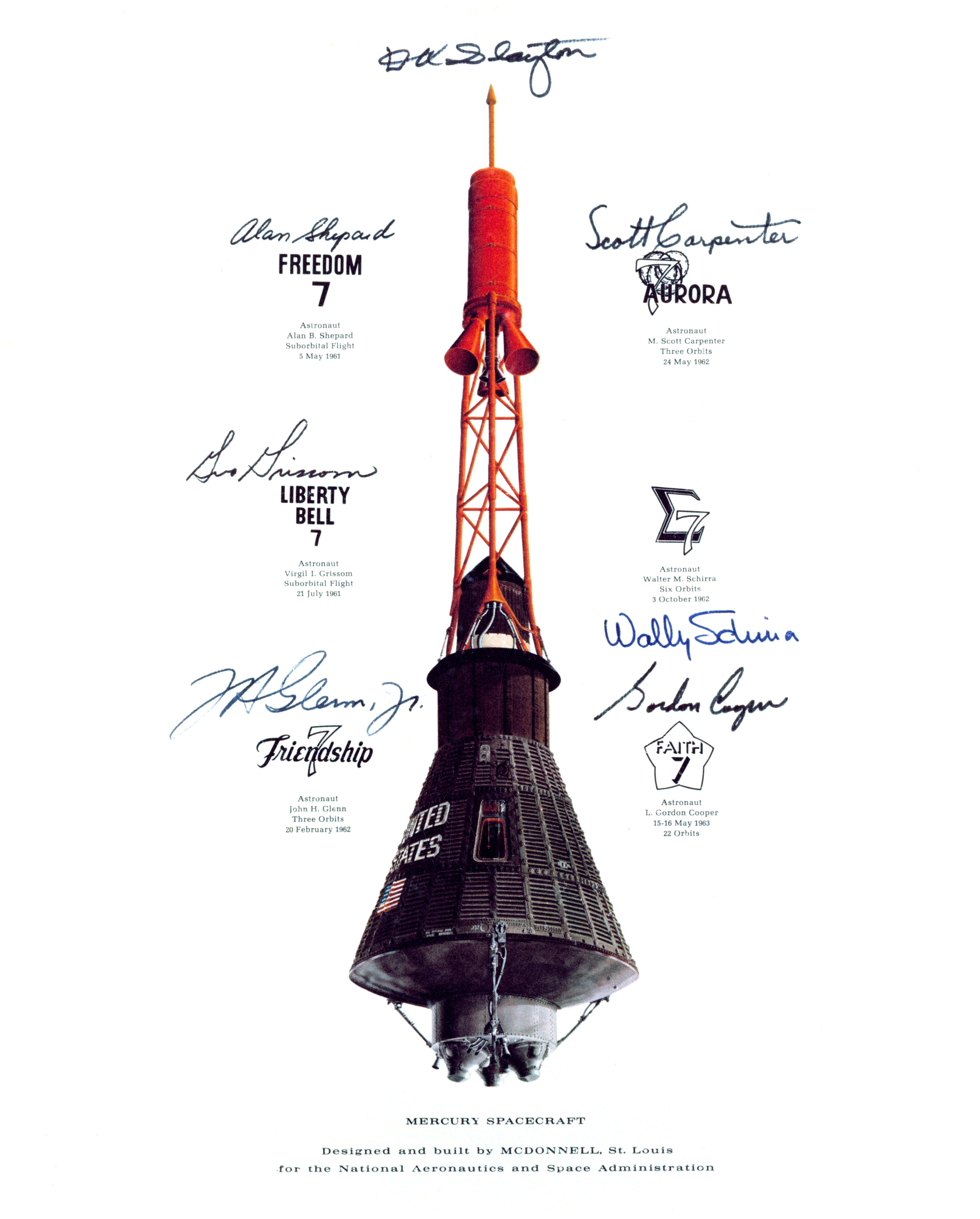 Drawing of the Mercury spacecraft (Original in File:Mercury capsule with escape system - artist concept - original.jpg) with all Mercury mission logos and astronauts signatures